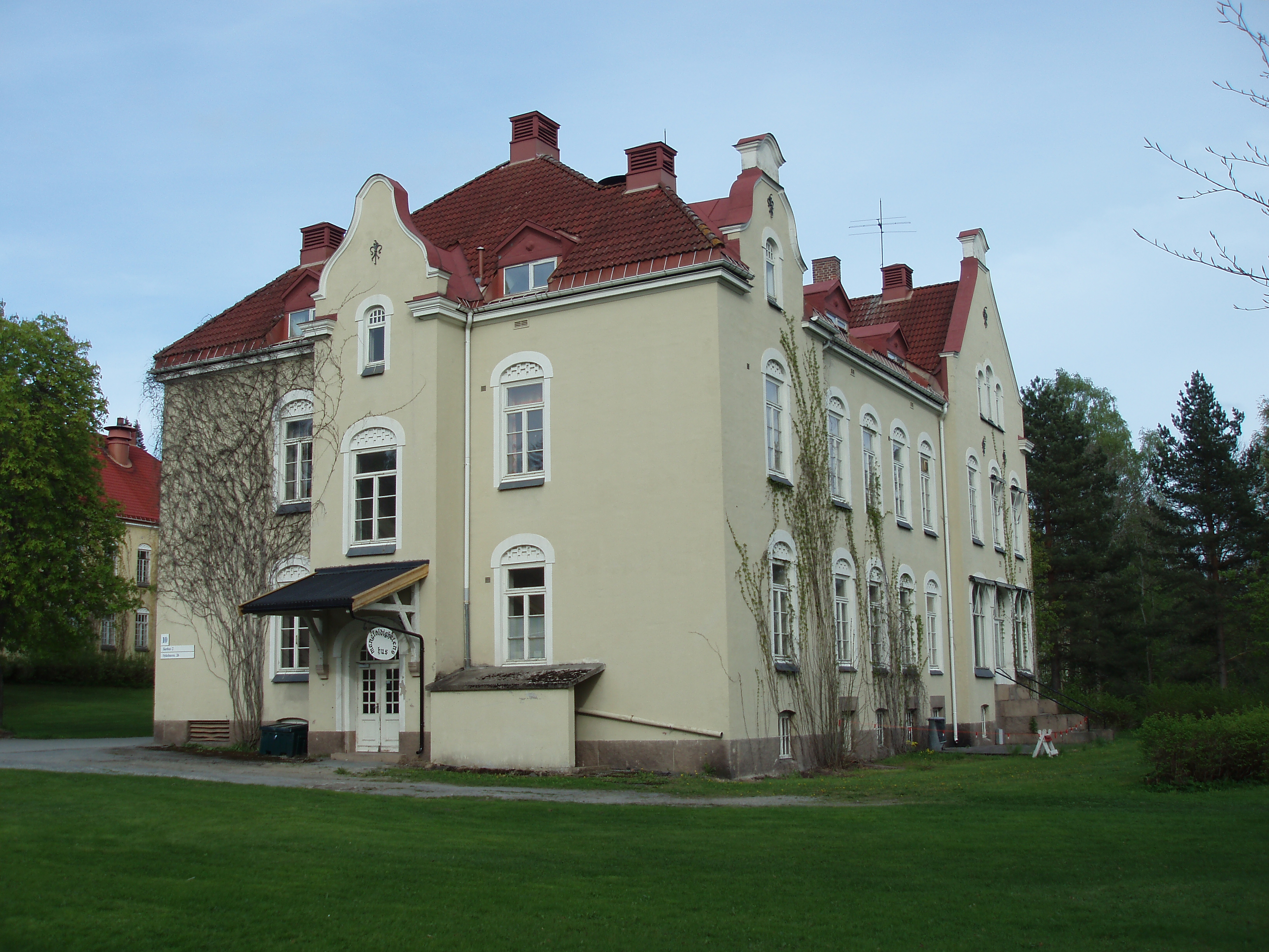 The building called "Kurhus 2" at Dikermark Hospital in Asker in Norway.